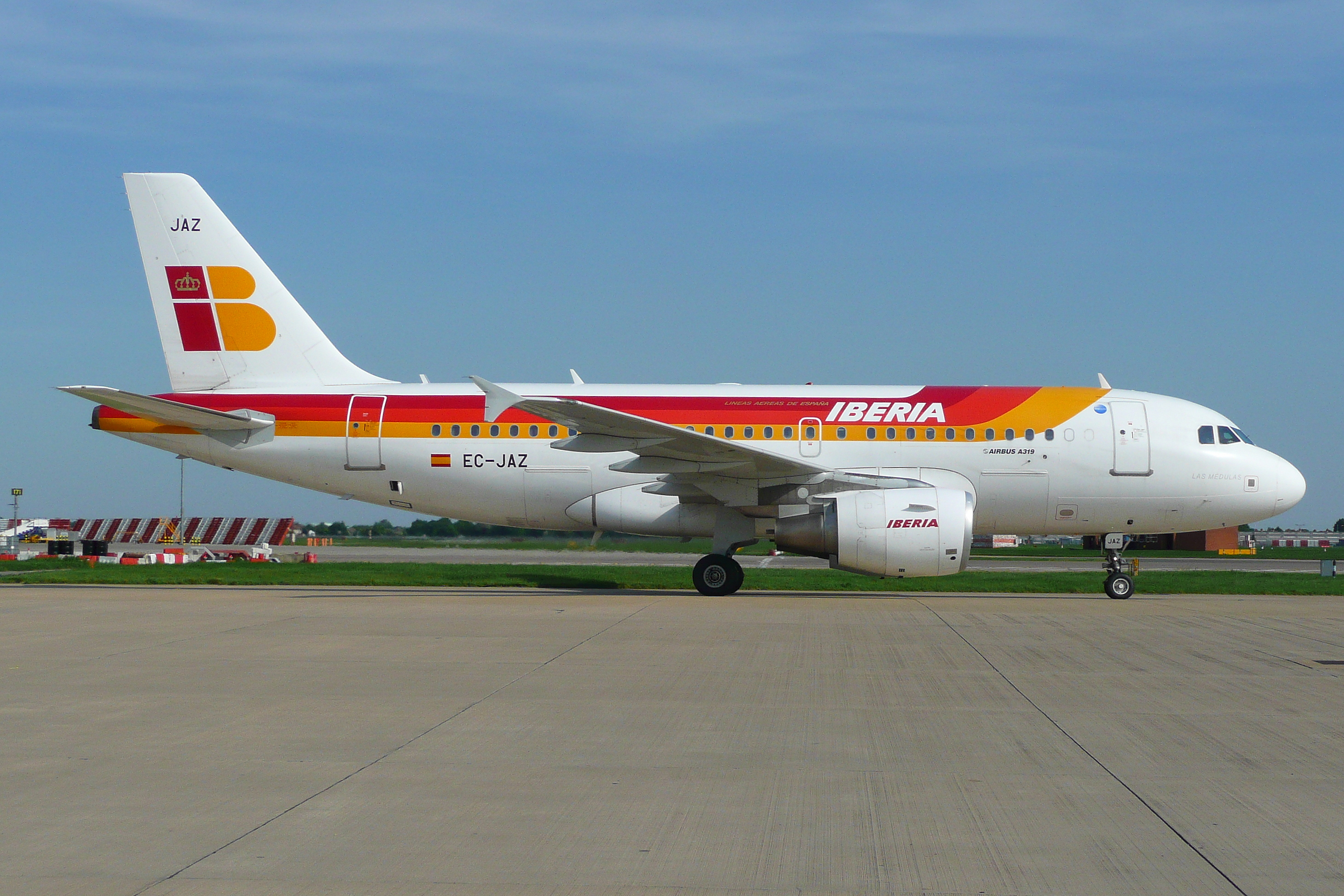 EC-JAZ A319 Iberia taxying past the Europier